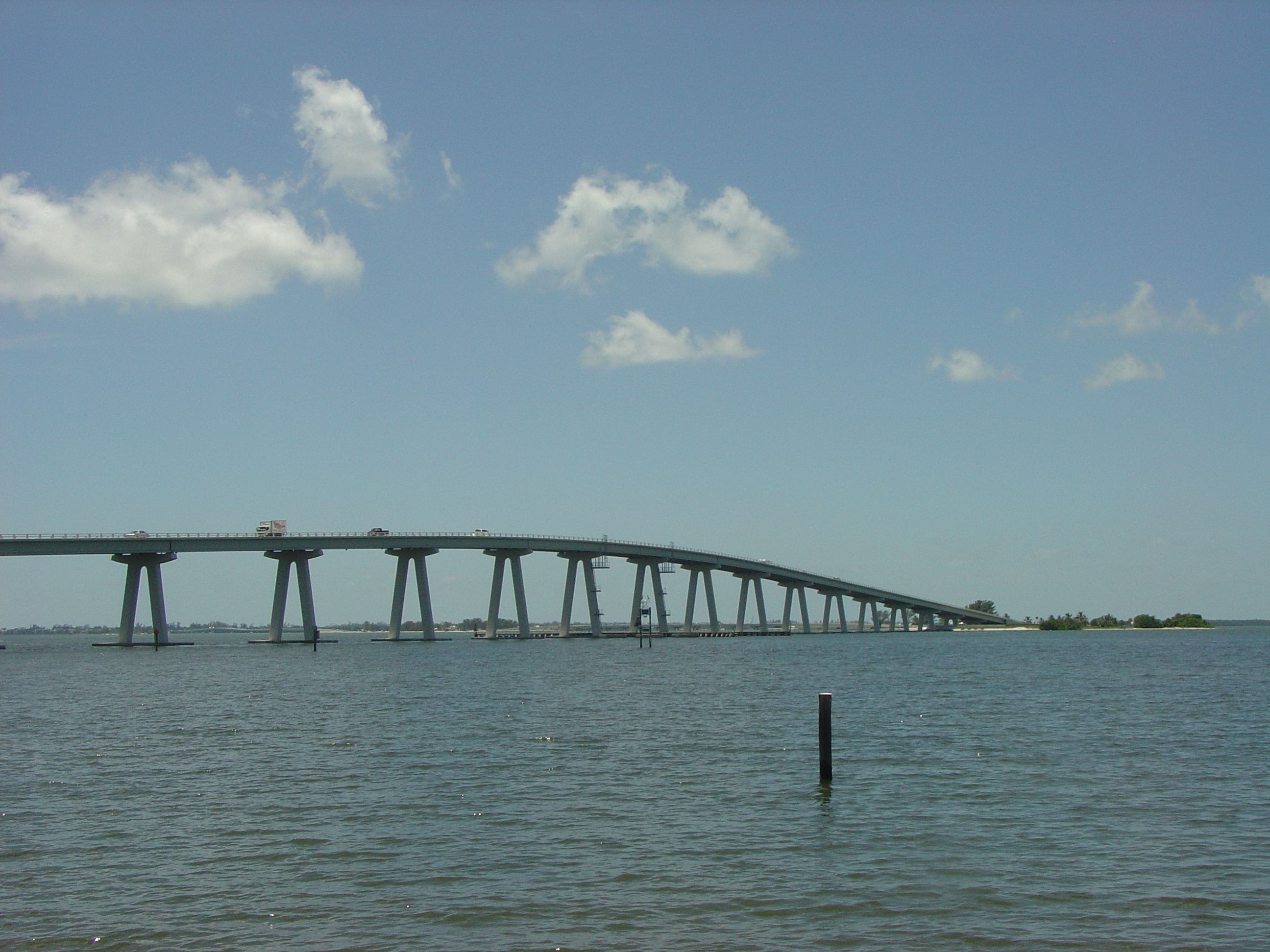 Sanibel Causeway Bridge A. Bridges B and C can be seen in the background.